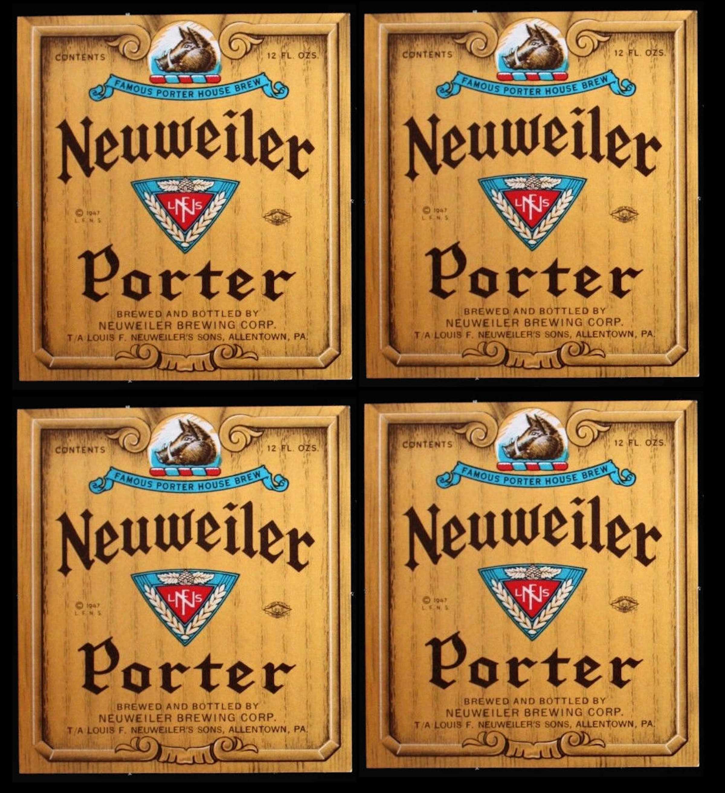 Neuweiler Porter Beer Labels (Square) 1956-1968